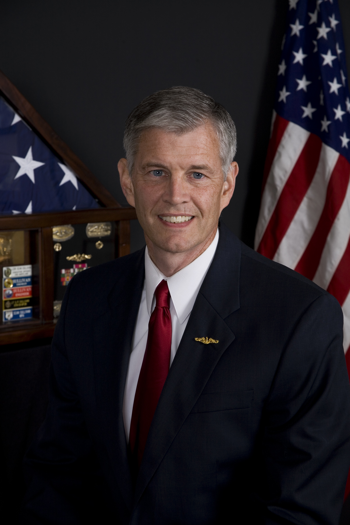 Sean Sullivan, 2008 Republican candidate for the United States Congress in Connecticut's 2nd congressional district.